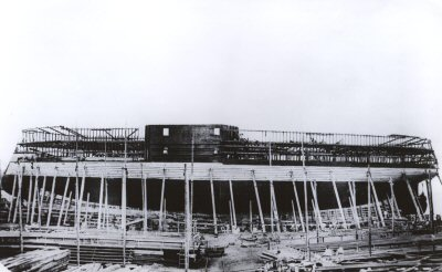 Austro-hungarian warship SMS Custozza.